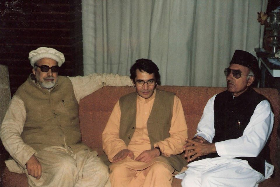 The Pashtons-Trio!